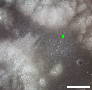 Green dot shows location of Van Serg, Taurus-Littrow Valley, on the moon. Scale bar at lower right is 5 km.